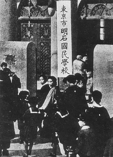 Tokyo Municipal Akashi National Elementary School